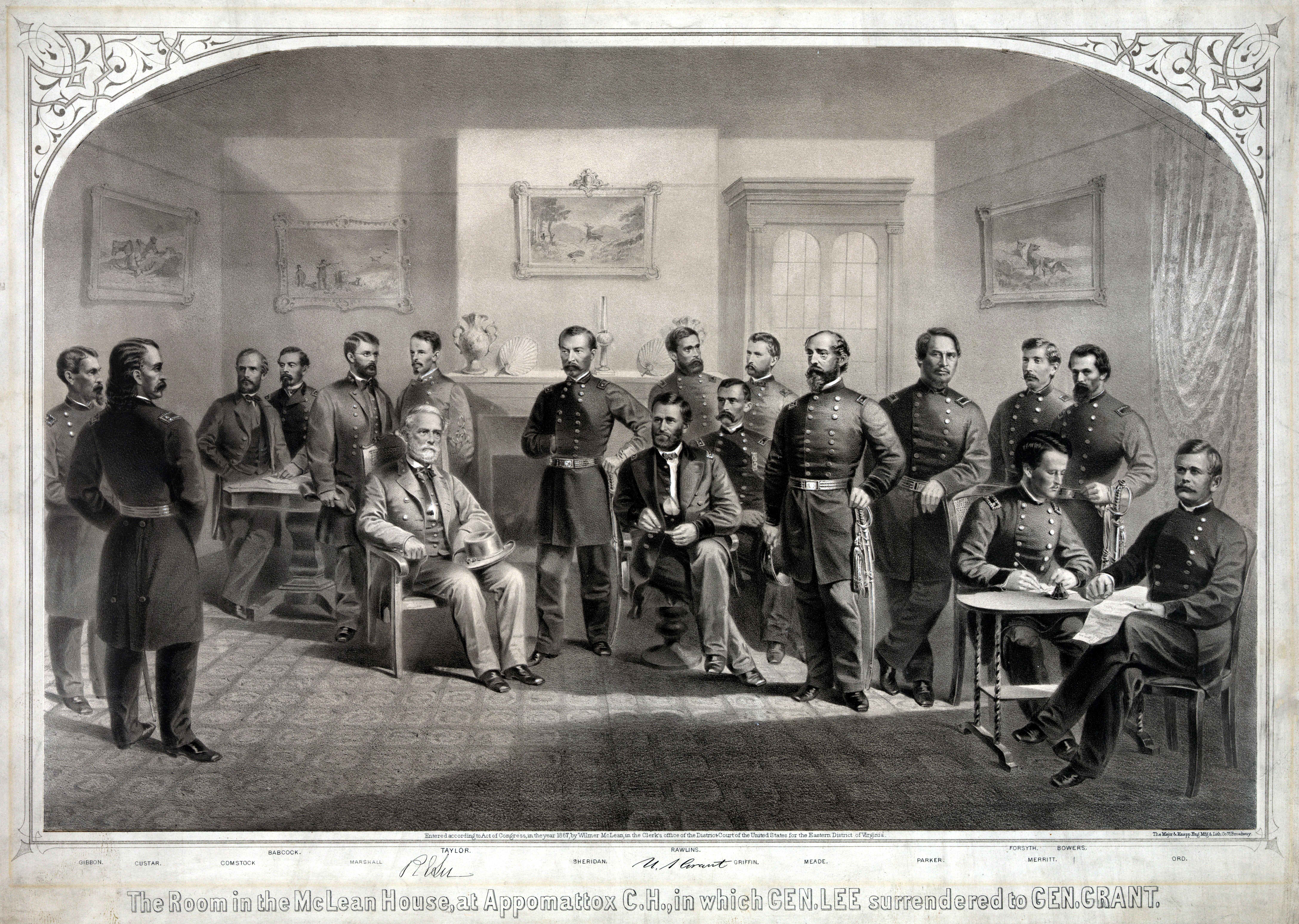 The Room in the McLean House, at Appomattox C.H., in which Gen. Lee surrendered to Gen. Grant Most written accounts of Robert E. Lee’s surrender to Ulysses S. Grant at Appomattox on April 9, 1865, noted the difference between Lee’s stiff dignity and Grant’s more relaxed demeanor. This lithograph of the event, showing the two men as they waited for the peace terms to be copied, captures that difference better than most. After the surrender, Wilmer McLean, the owner of the house, lost much of his furniture to soldiers desiring mementos of the historic event. Later, in what proved to be a futile effort to recoup his losses and raise funds for his needy family, he commissioned this print. Pictured Left to Right: John Gibbon, George Armstrong Custer, Cyrus B. Comstock, Orville E. Babcock, Charles Marshall, Walter H. Taylor, Robert E. Lee, Philip Sheridan, Ulysses S. Grant, John Aaron Rawlins, Charles Griffin, unidentified, George Meade, Ely S. Parker, James W. Forsyth, Wesley Merritt, Theodore Shelton Bowers, Edward Ord. The man not identified in the picture’s legend is thought to be General Joshua Chamberlain, a hero of Gettysburg who presided over the formal surrender of arms by Lee’s Army of Northern Virginia on April 12, 1865. The table and chairs are on display at the Smithsonian Istitution.